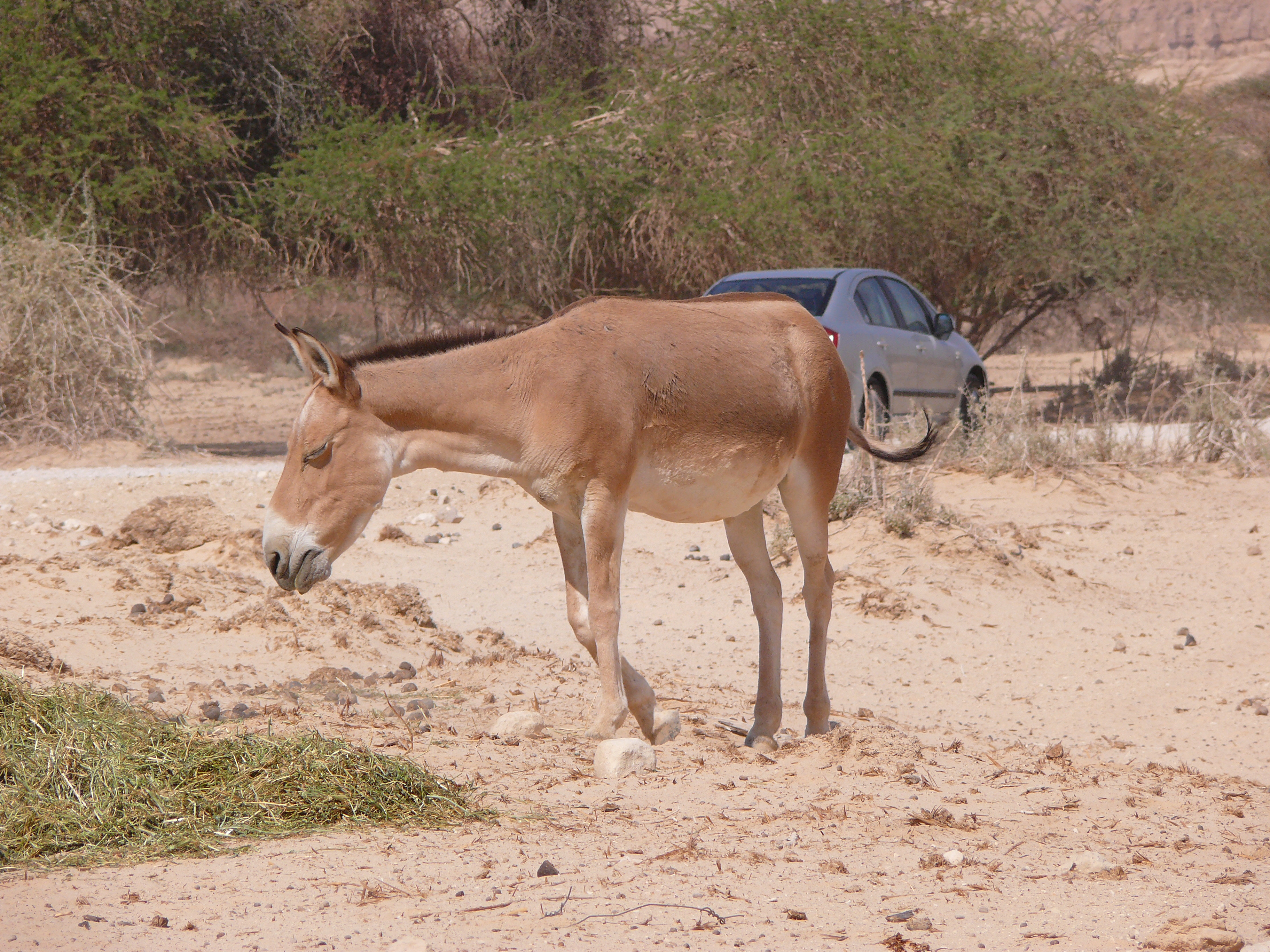 Equus hemionus onager, Chay Bar Yotvata, Israel